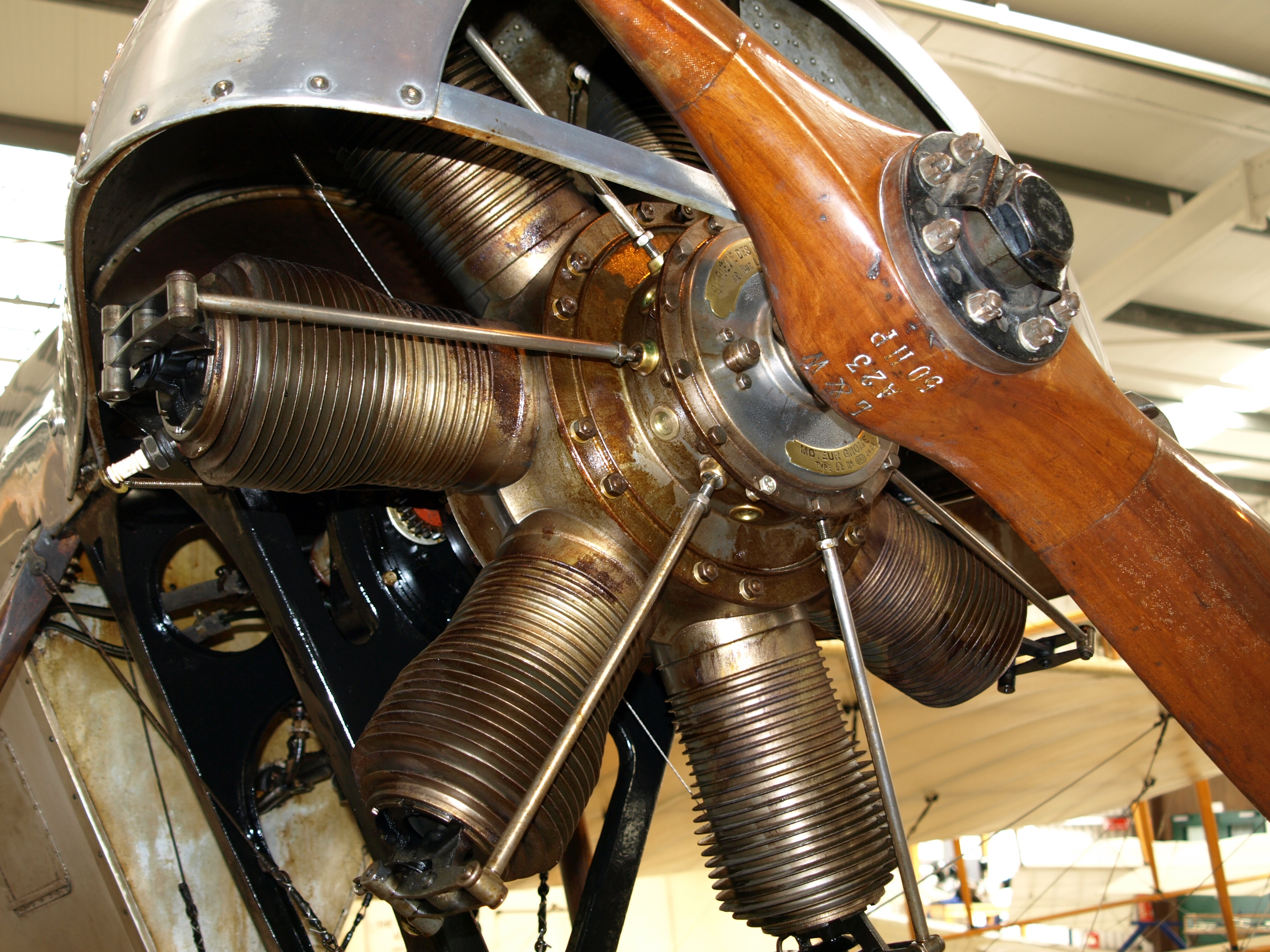 Gnome Omega rotary aero engine installed in the Shuttleworth Collection's airworthy Blackburn Type D Monoplane.